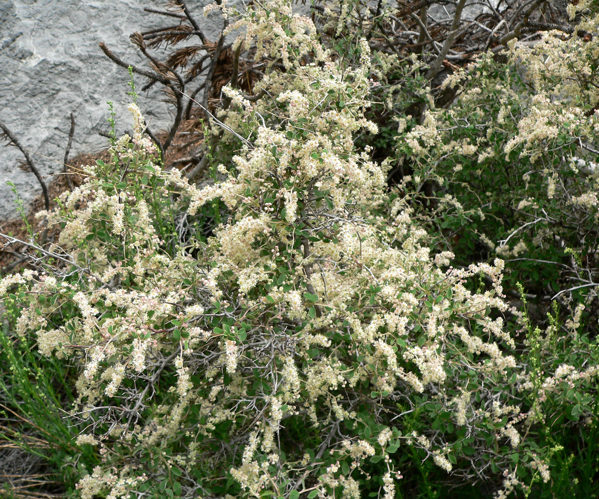 Holodiscus microphyllus var. microphyllus in avalanche chute left of the South Loop trail where it ascends out of the chute, Kyle Canyon, Spring Mountains, southern Nevada (elev. about 2700 m)